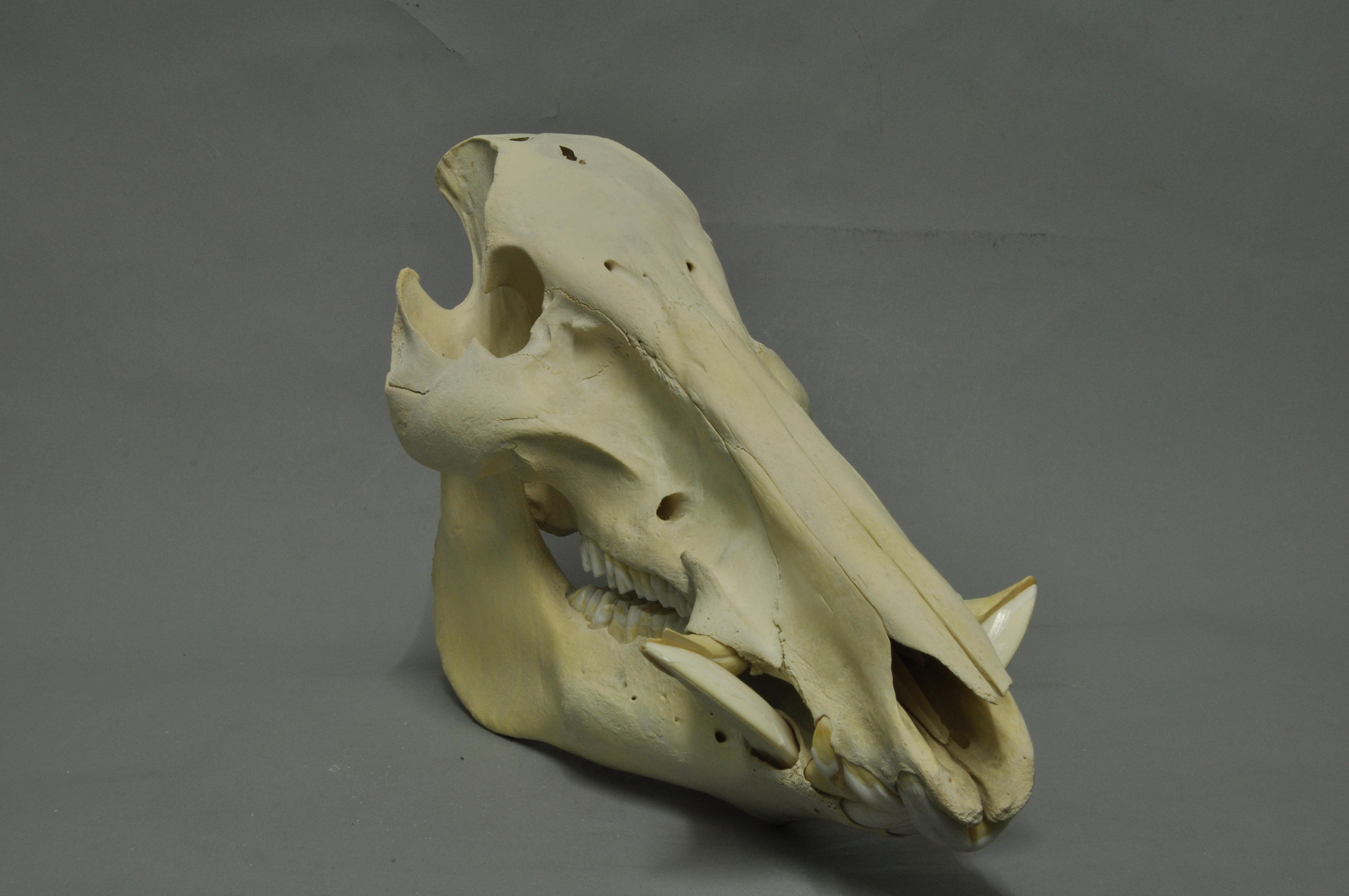 Javan warty pigSus verrucosus , skull, Coll. Museum Wiesbaden